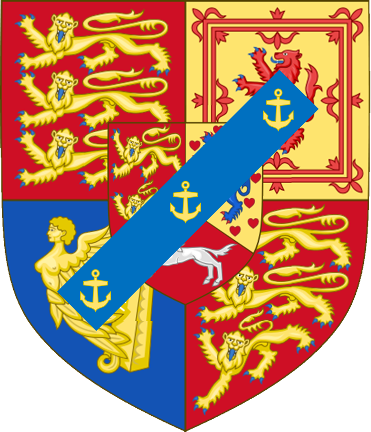 Shield of arms of The Earl of Munster